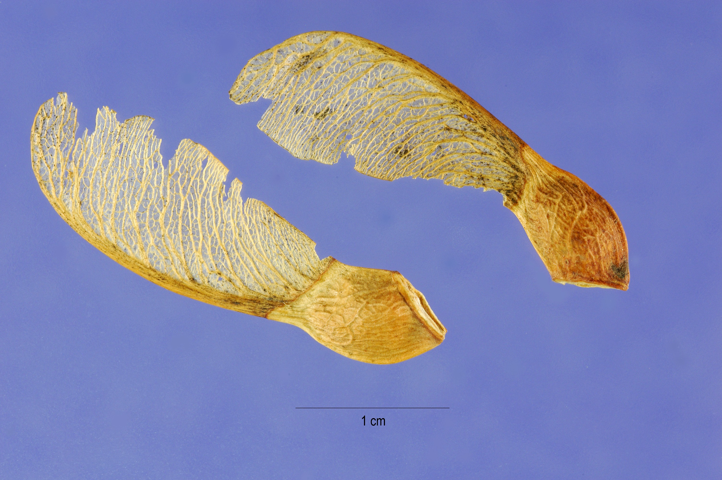 Bigtooth Maple. Seeds. Mt. Union, AZ, USA.